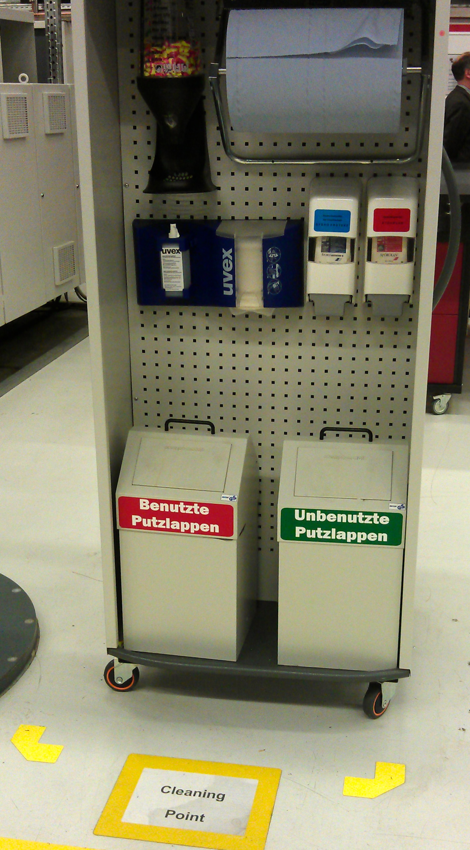 5S: Cleaning Point Cleaning Point in a 5S organized factory